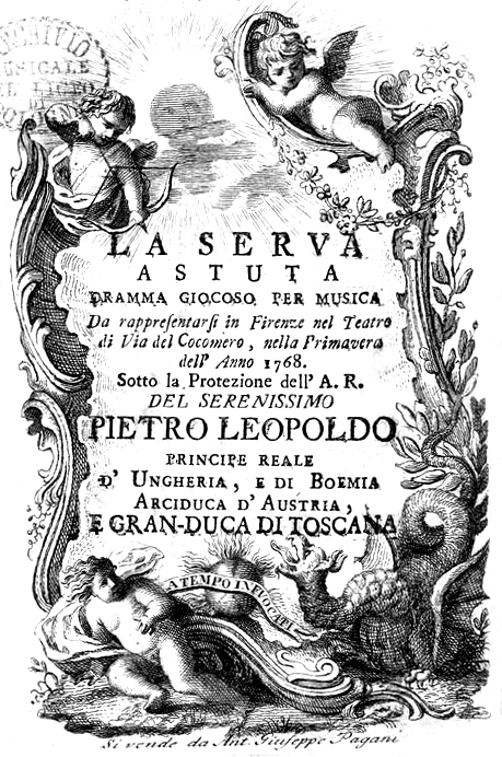 Alessandro Felici - La serva astuta - titlepage of the libretto - Florence 1768